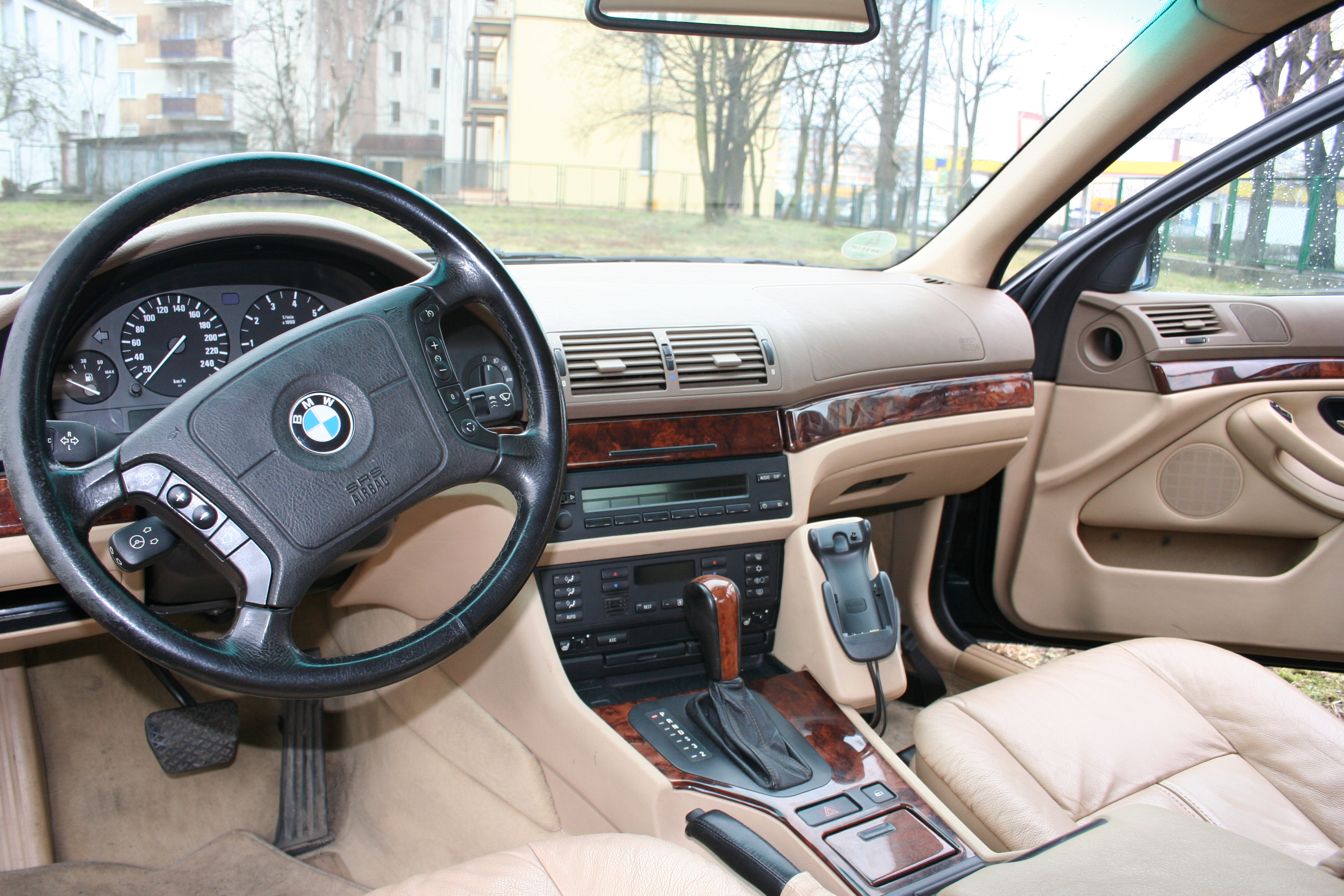 Interior BMW 528 year 1996 automatic transmission